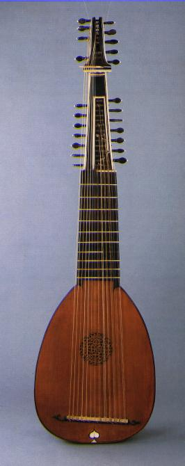 An Archlute by Matteo Sellas, Venice, 17th century